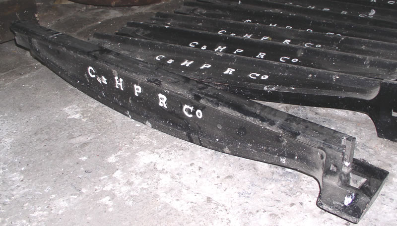 Cromford and High Peak Railway Fishbelly Rail